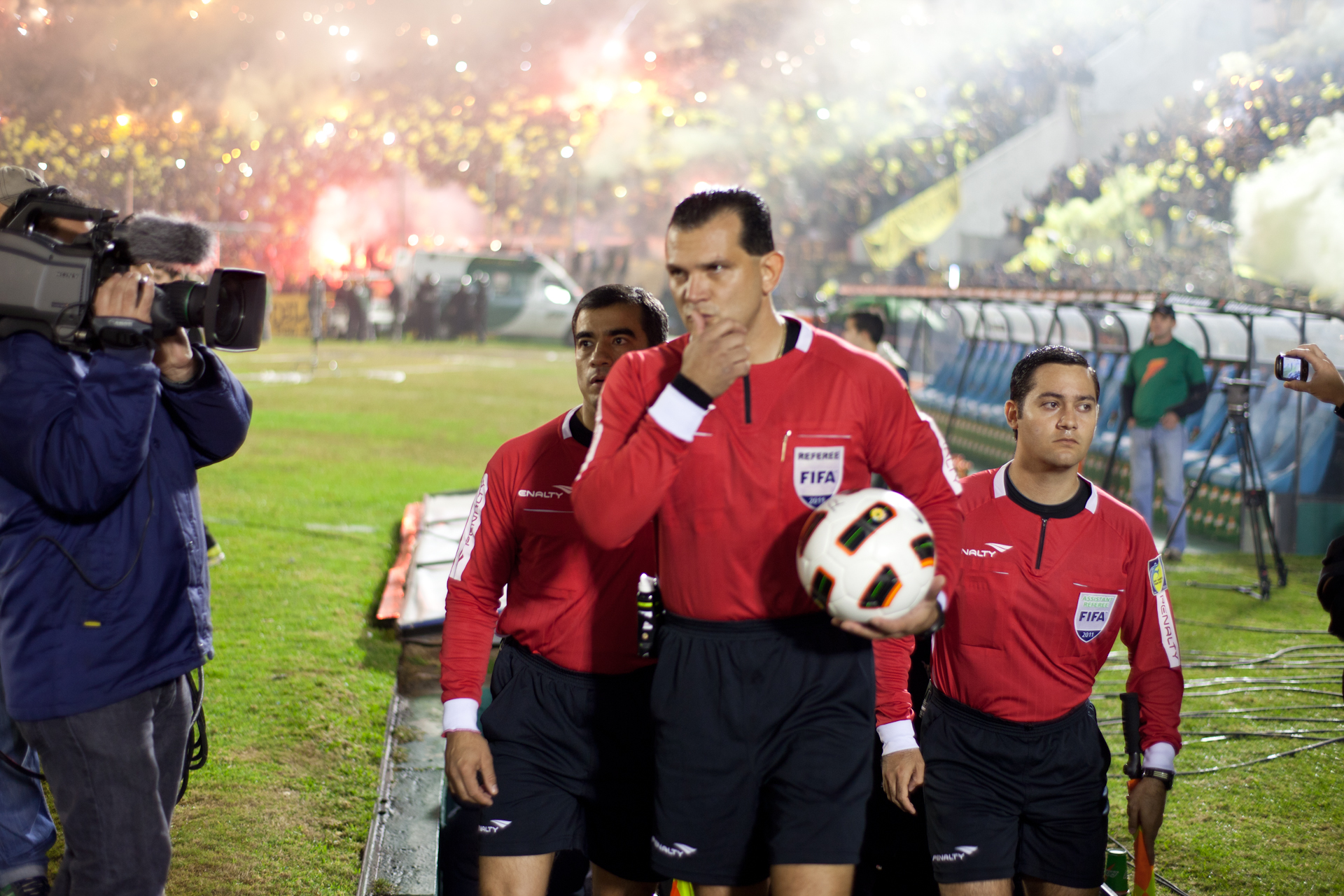 Football referee, Carlos Amarilla, entering the pitch at the Centenario stadium for the first leg of the 2011 Copa Libertadores final between Peñarol and Santos.